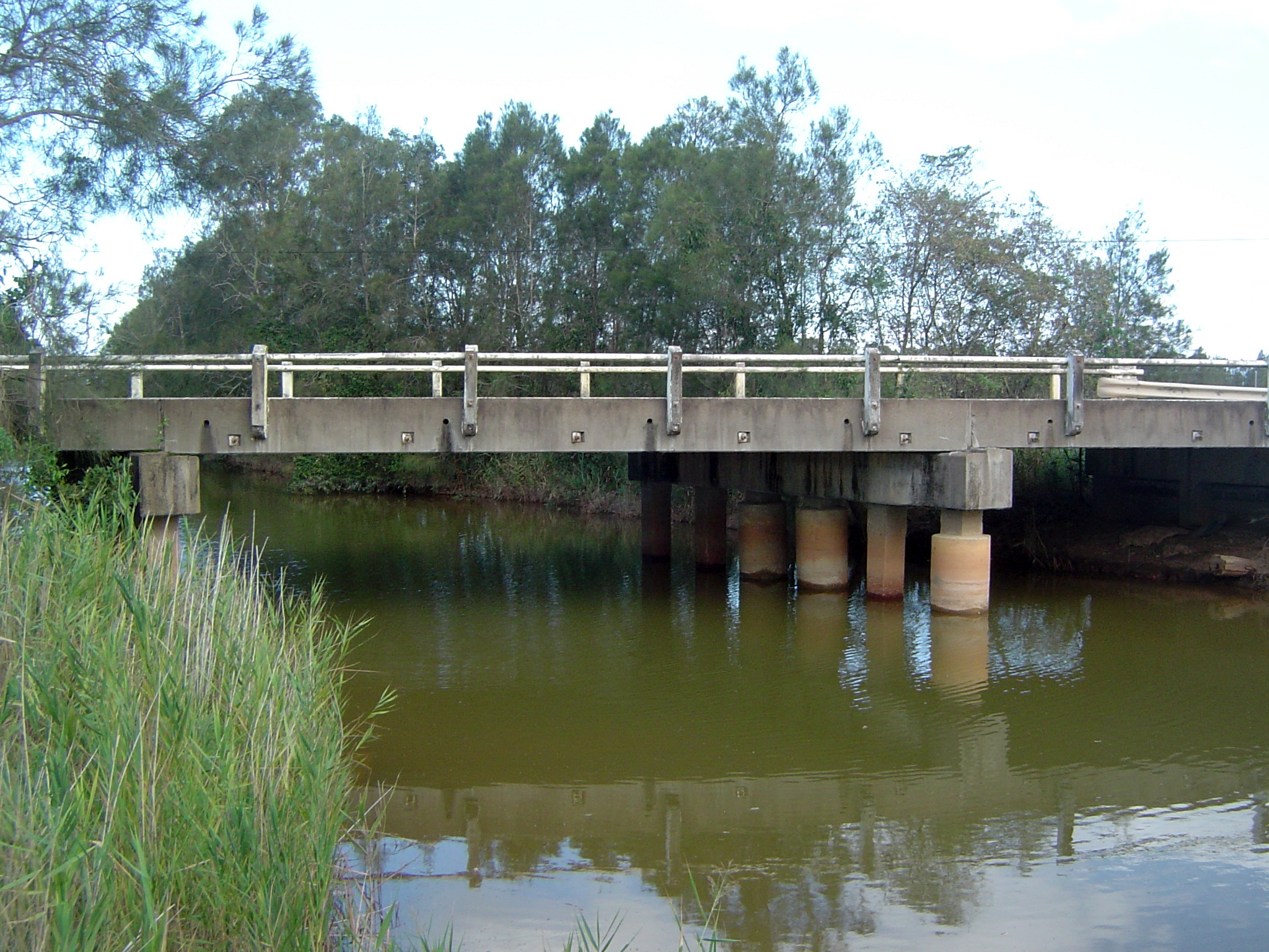 Photo of Kerkin Road North crossing the Pimpama River at Pimpama, Queensland, Australia.